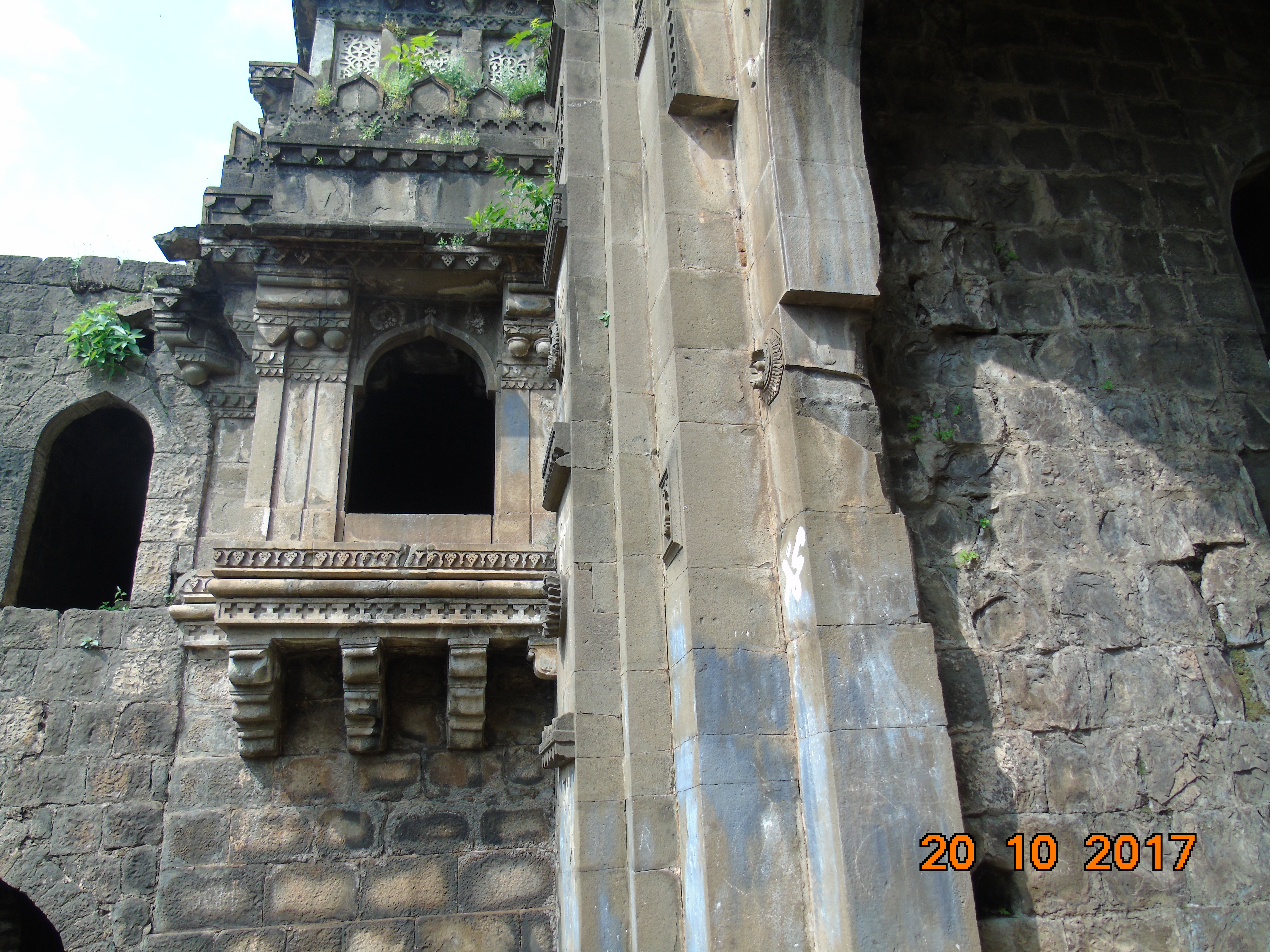 This gate is Beautifully carved